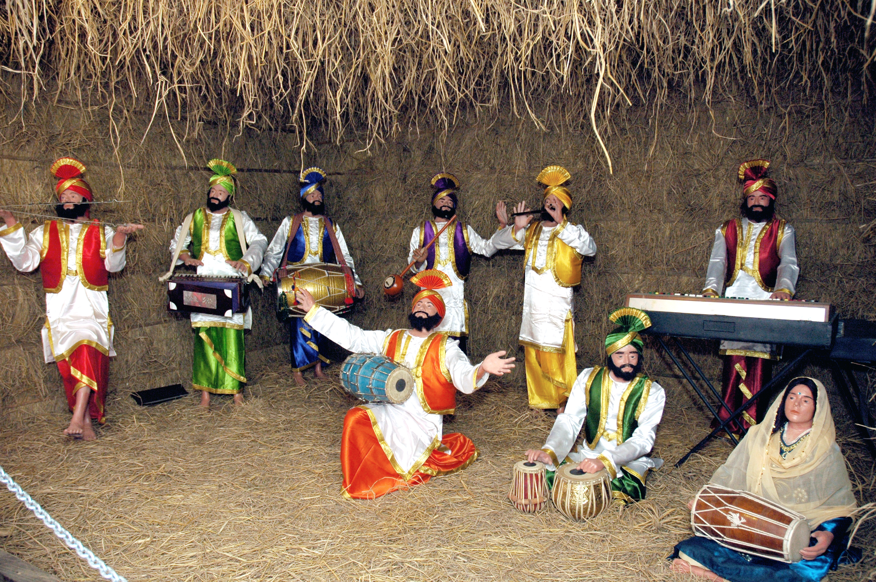 Musical Instruments & Wax Statues Museum - India's largest collection of musical instruments - Over 1400 musical instruments displayed